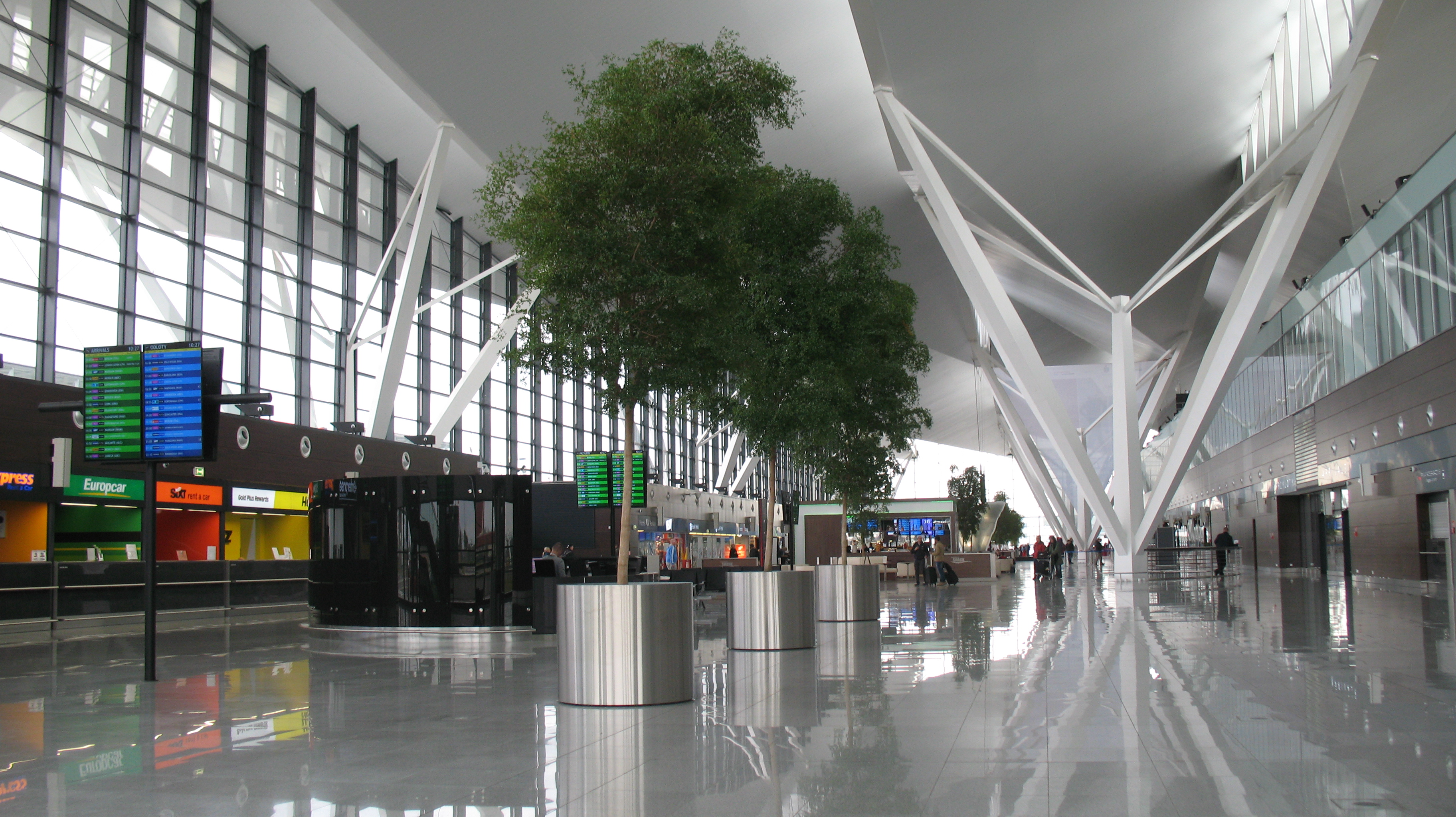 Passenger terminal at Gdańsk Airport, Poland